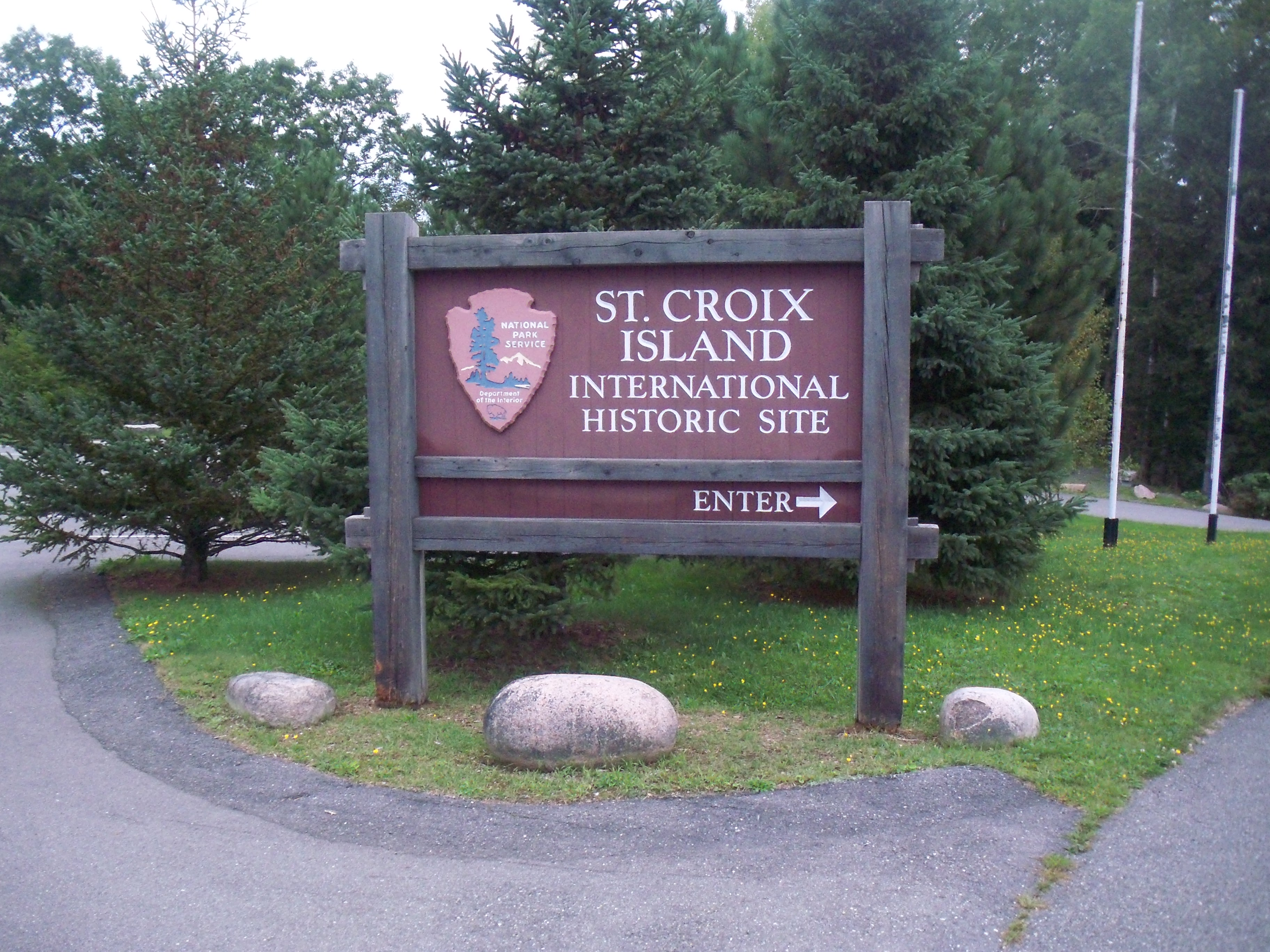 National Park Service sign at the entrance of St. Croix Island International Historic Site, near Calais, Maine